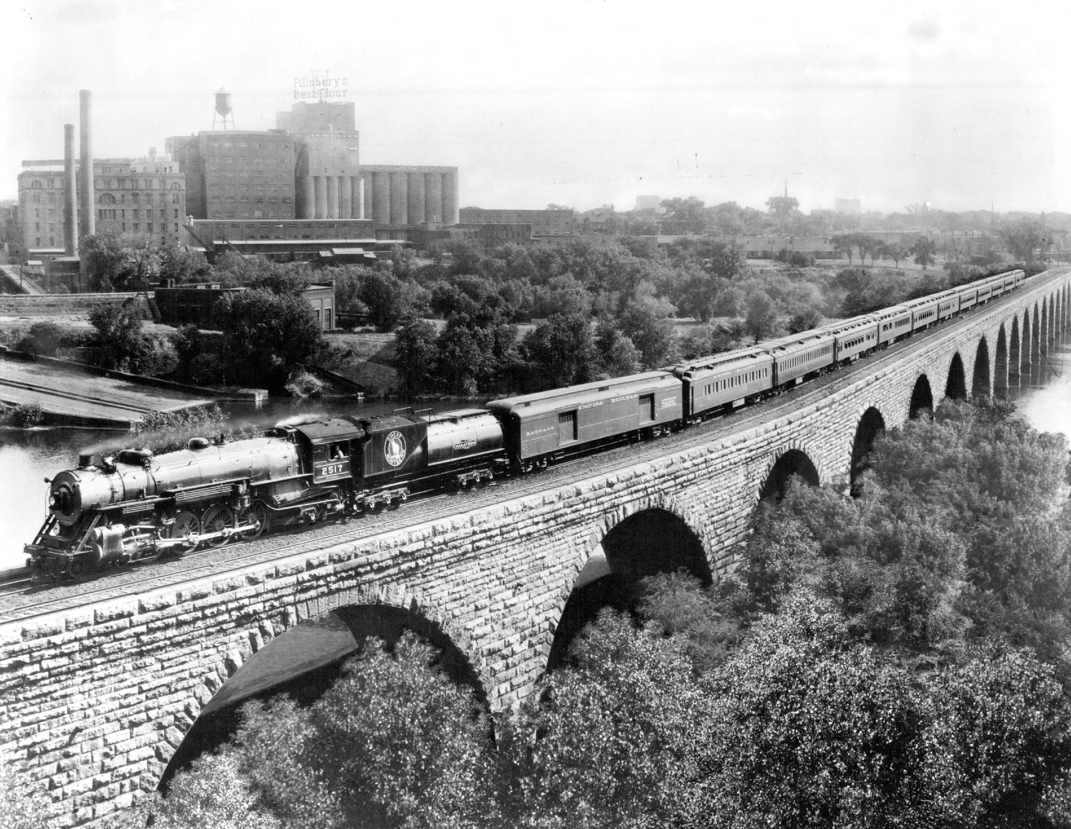 Postcard photo of the Great Northern Railway's "Empire Builder" as it crosses the Minneapolis stone arch bridge. This version of the train is the original train set as it's using a steam locomotive.